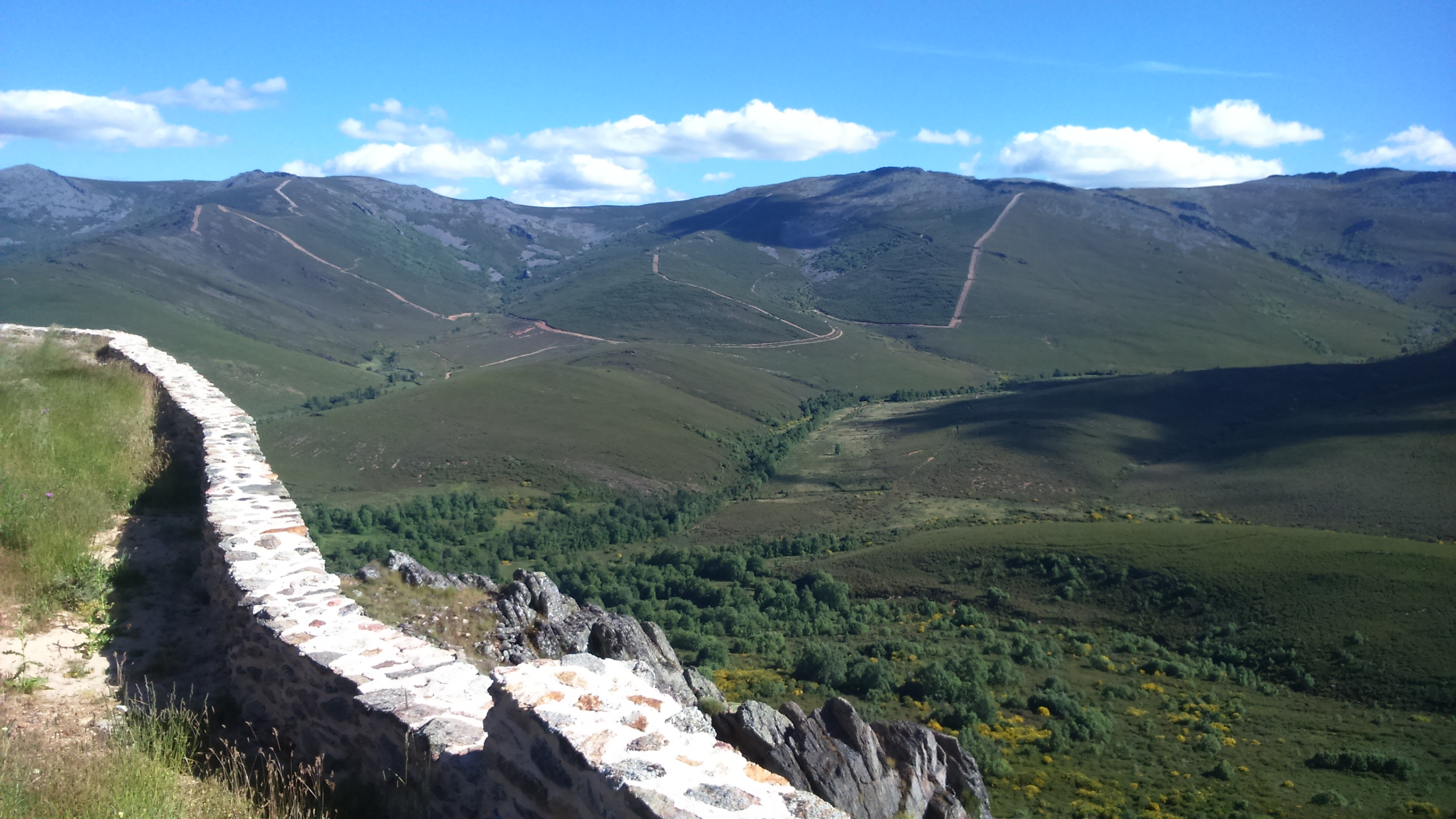 Entorno de Valdavido